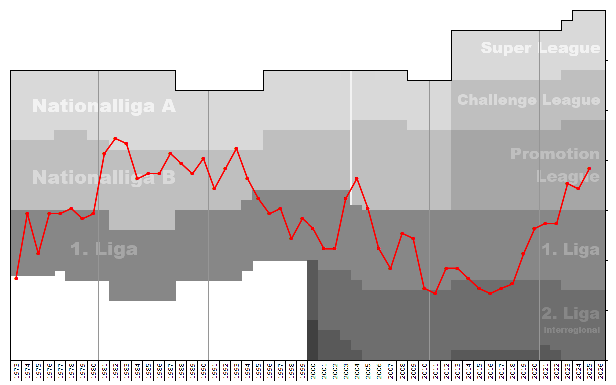 Chart of end-season table positions of FC Bulle in the Swiss football league system. Data source: RSSSF, , football.ch